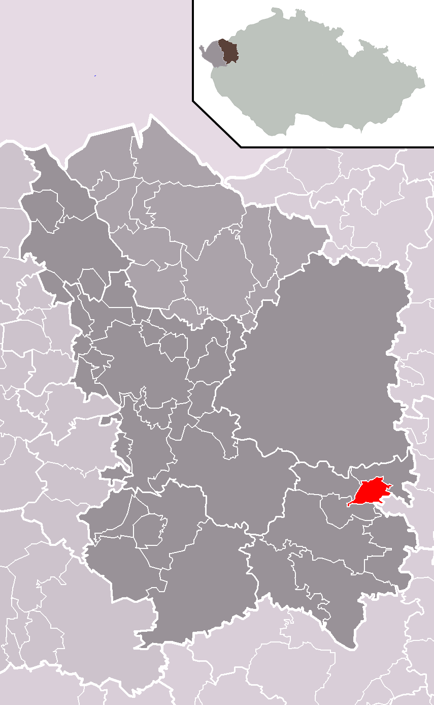 Location of Vrbice municipality within Karlovy Vary District and administrative area of Karlovy Vary as a Municipality with Extended Competence.